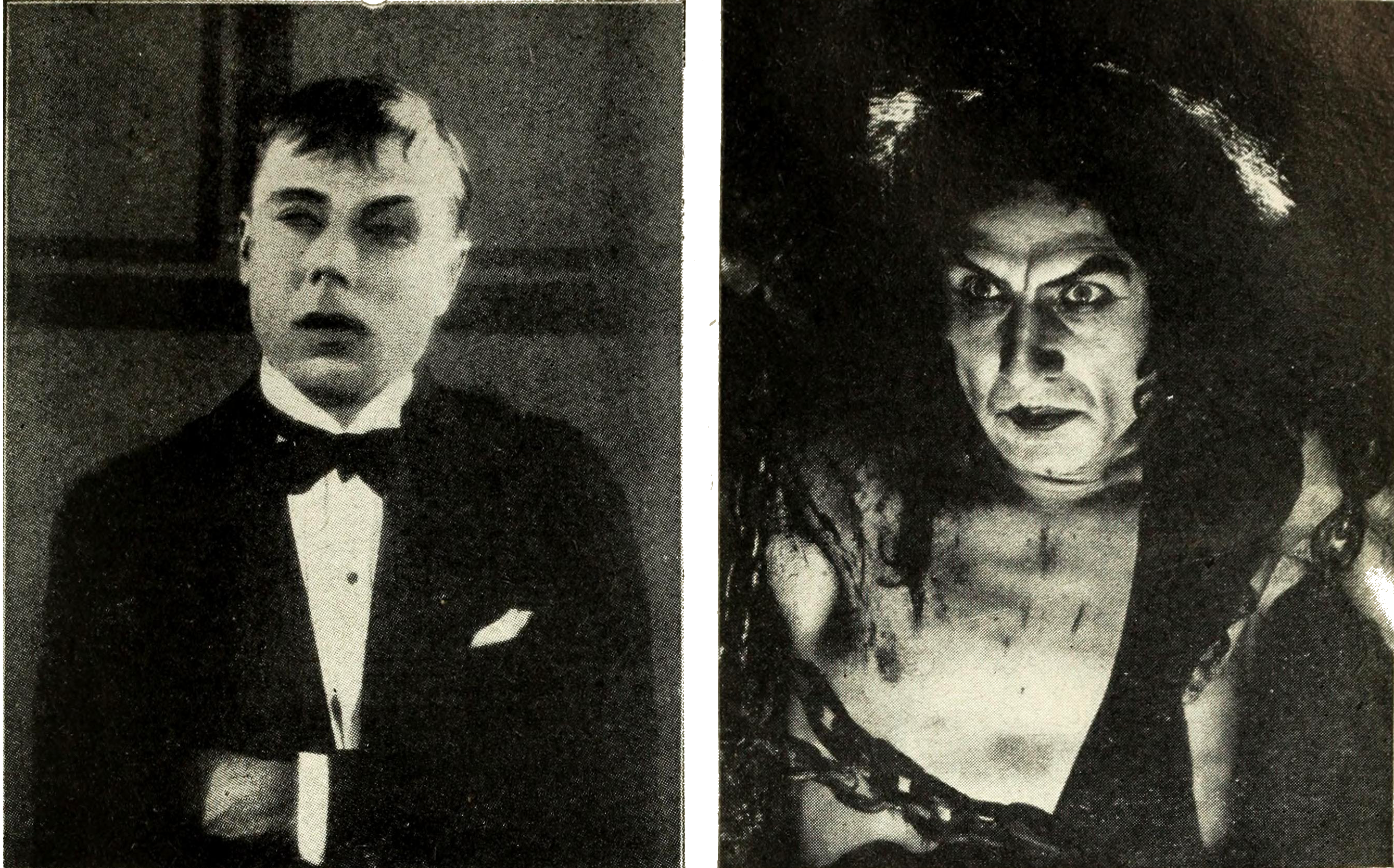 Two aspects of Ivan Mosjoukine in Le Brasier ardent.